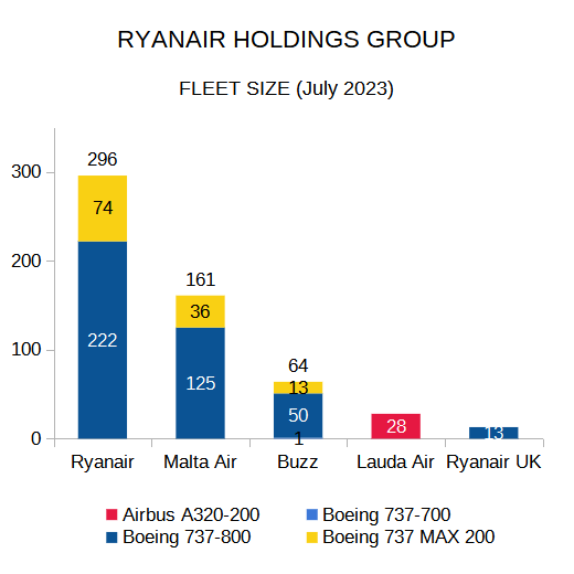 Ryanair Holdings Group fleet size - valid from 20 May 2020. Data retrieved from on 19 May 2020